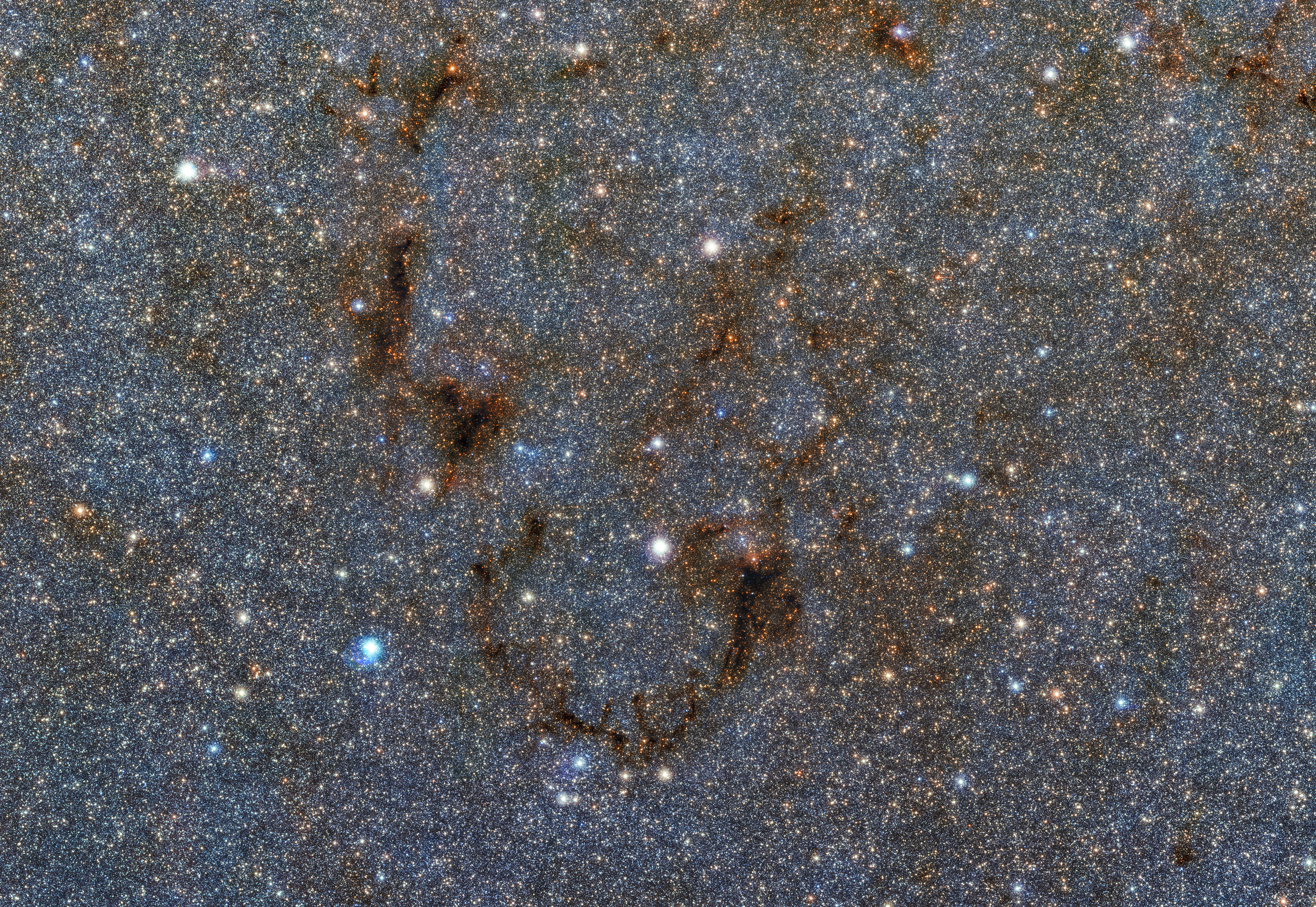 A sinister smile appears amid a sea of stars in this image — a small portion of a gigantic gigapixel colour mosaic of the Milky Way’s heart. Comprised of thousands of incredibly detailed images taken by ESO’s Visible and Infrared Survey Telescope for Astronomy (VISTA), the mosaic reveals more of the stars at the Milky Way’s heart than ever before. VISTA was chosen due to its extremely sensitive infrared camera, which can see through most of the dust that blocks our view towards the centre of the galaxy. What we see in this image is a dense patch of gas and dust — a nebula — that even VISTA’s camera cannot see through. Located near the Lagoon Nebula (not seen), it appears to wink back as it mischievously blocks out the light from background stars. The full image contains almost nine billion pixels, and is part of the Vista Variables in the Via Lactea (VVV) survey, a project to image the Milky Way’s bulge and disc at near-infrared wavelengths. To create the colour mosaic, images at three different wavelengths were seamlessly combined. The full zoomable image can be explored online.